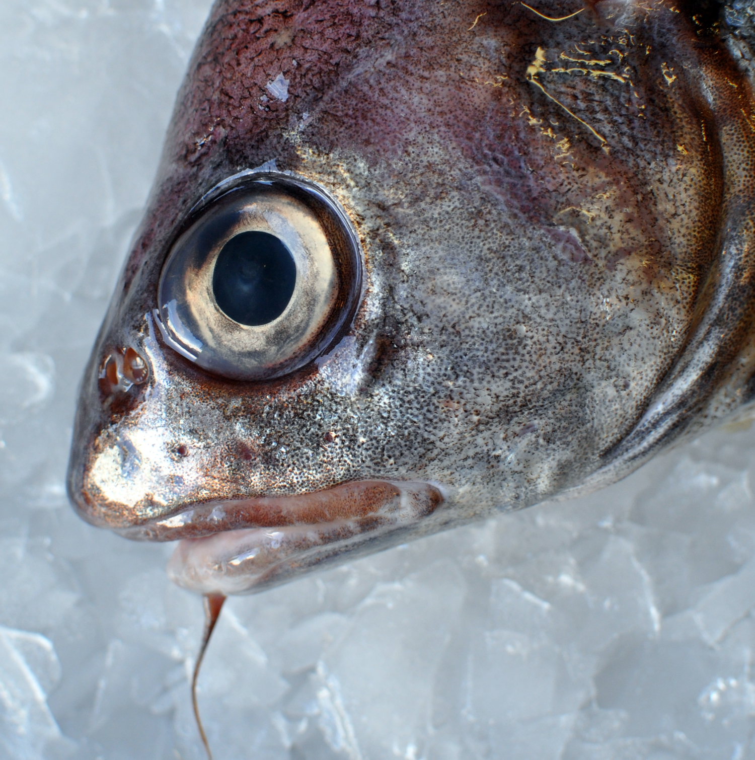 Trisopterus luscus head